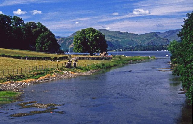 Looking towards Ullswater from Pooley Bridge. Typical Lake District scene looking from Pooley Bridge towards Ullswater.